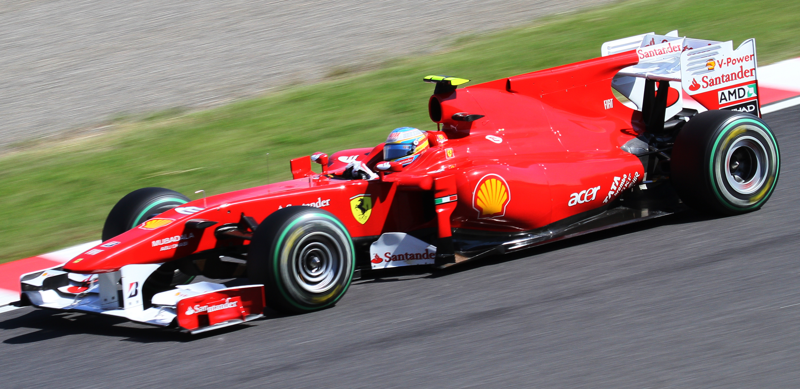 Formula One 2010 Rd.16 Japanese GP: Fernando Alonso (Ferrari) during the 3rd qualify on Sunday.